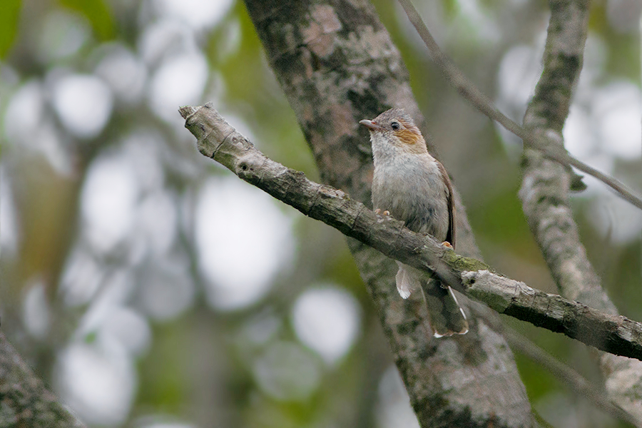 The species Striated Yuhina had been photographed during the birding tour of GoingWild in Mahananda Wildlife Sanctuary at Darjeeling district in West Bengal, India on 09.05.2016.